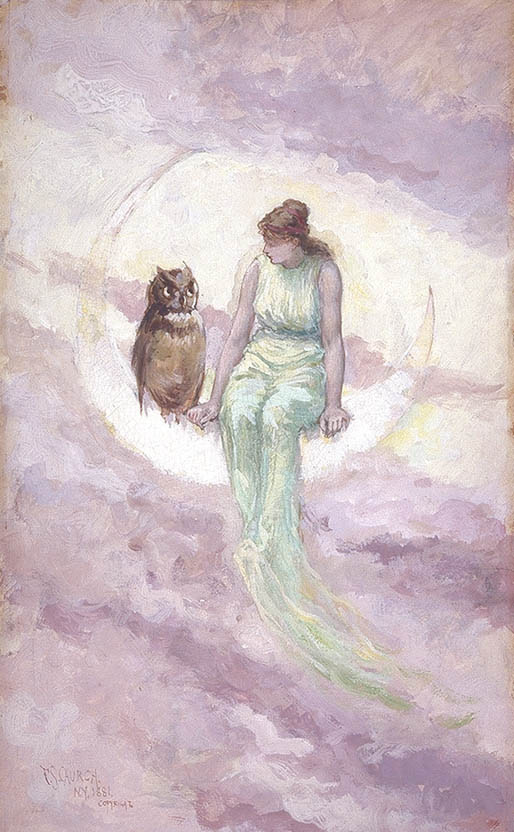 The Witch's Daughter